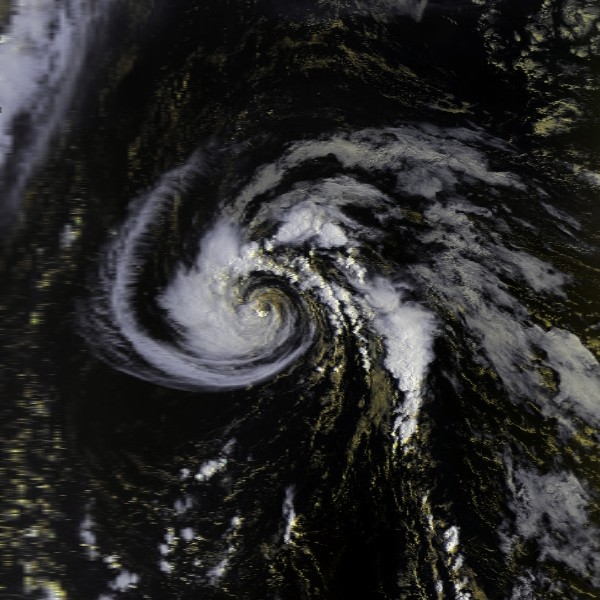 Hurricane Earl from NOAA-6. Inventory ID: NSS.GHRR.NA.D80252.S1006.E1158.B0623738